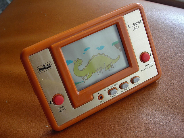 El condor Pasa - A Polistil LCD game from '80s